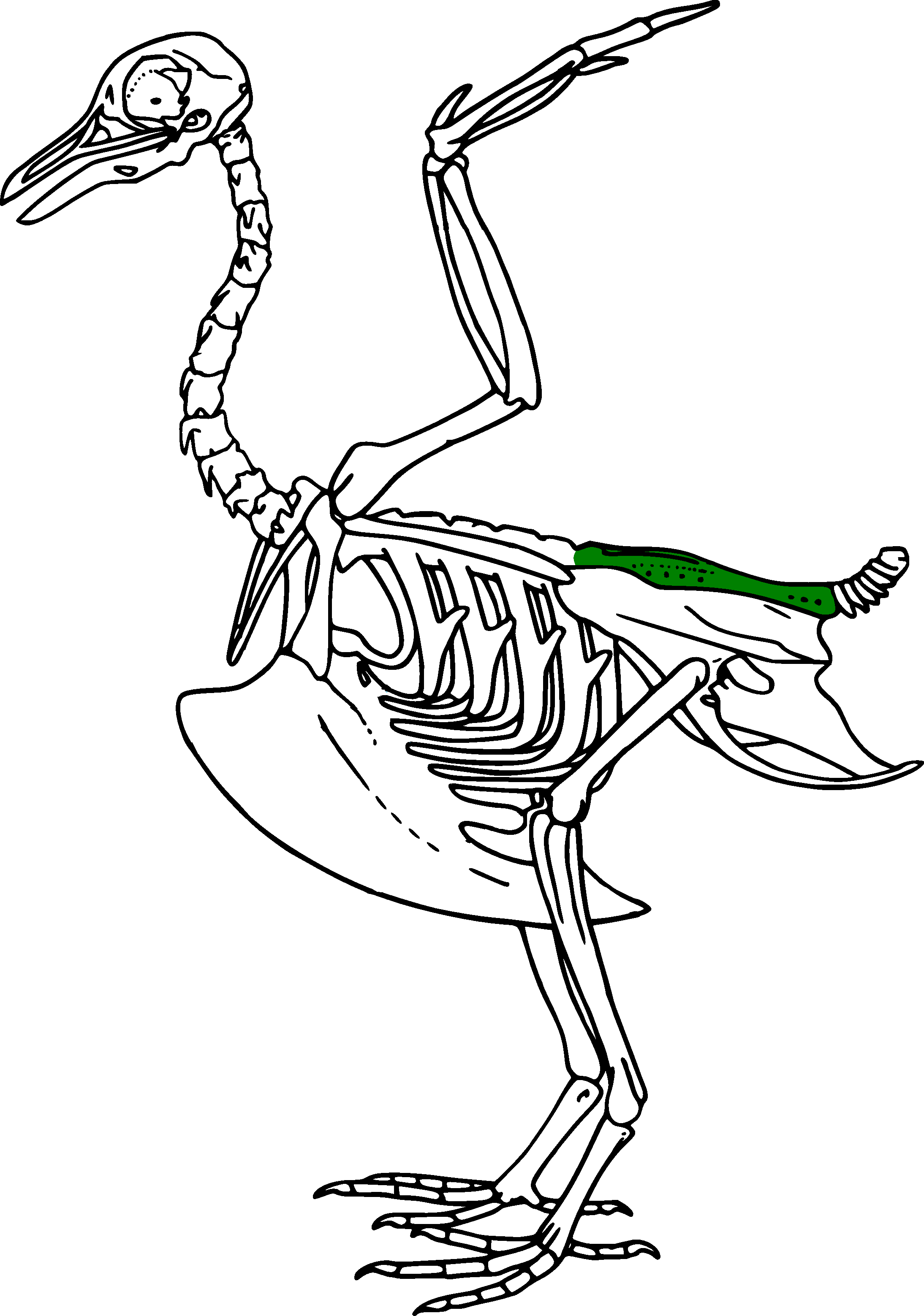 The synsacrum is a skeletal structure, mainly described in birds and dinosaurs, in which the sacrum is extended by incorporation of additional fused or partially-fused caudal or lumbar vertebrae.